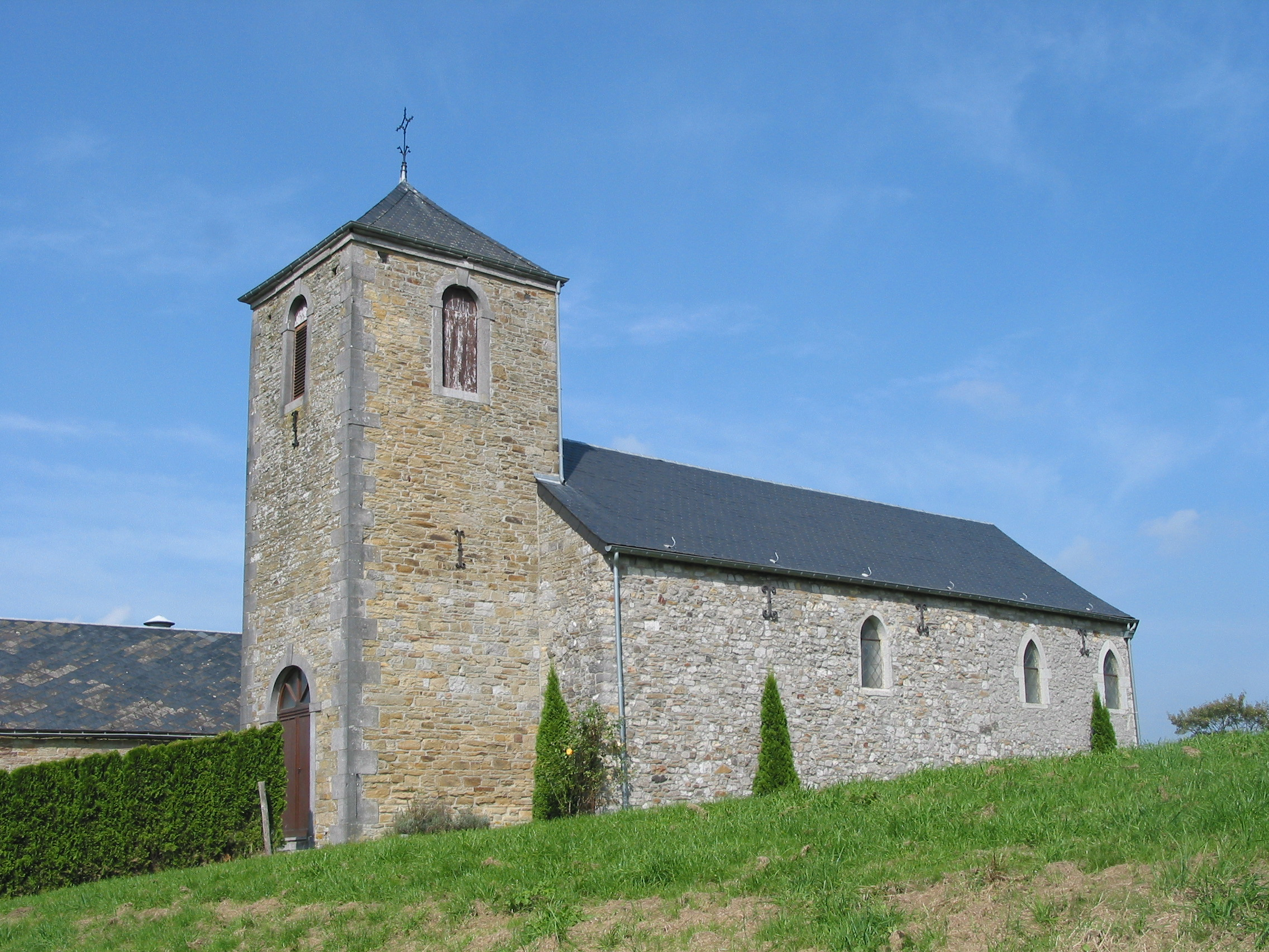 Abée (Belgium), the Saint Donatus’ chapel.